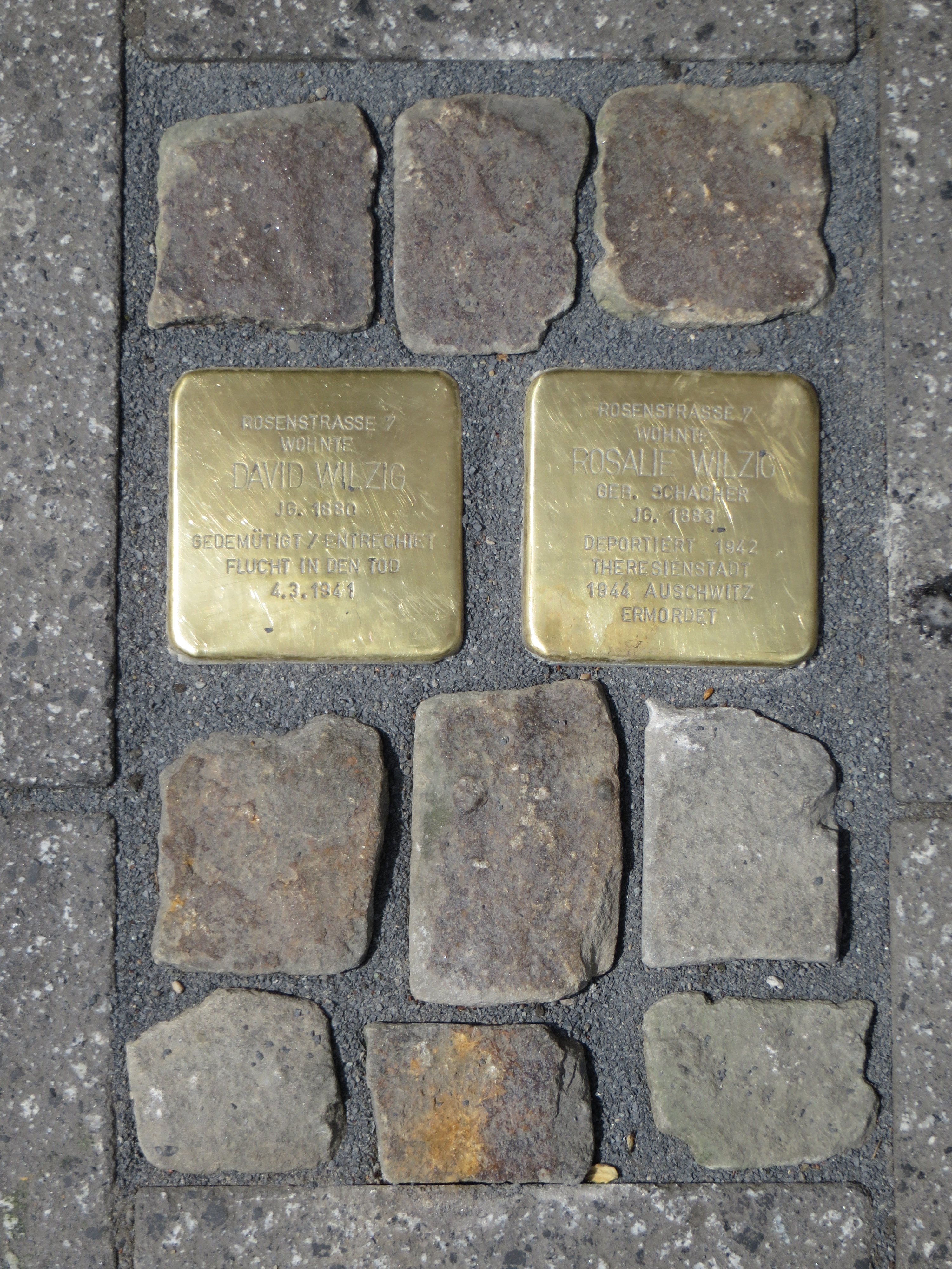 Stolpersteine at house Berliner Straße 28 in Witten, Germany